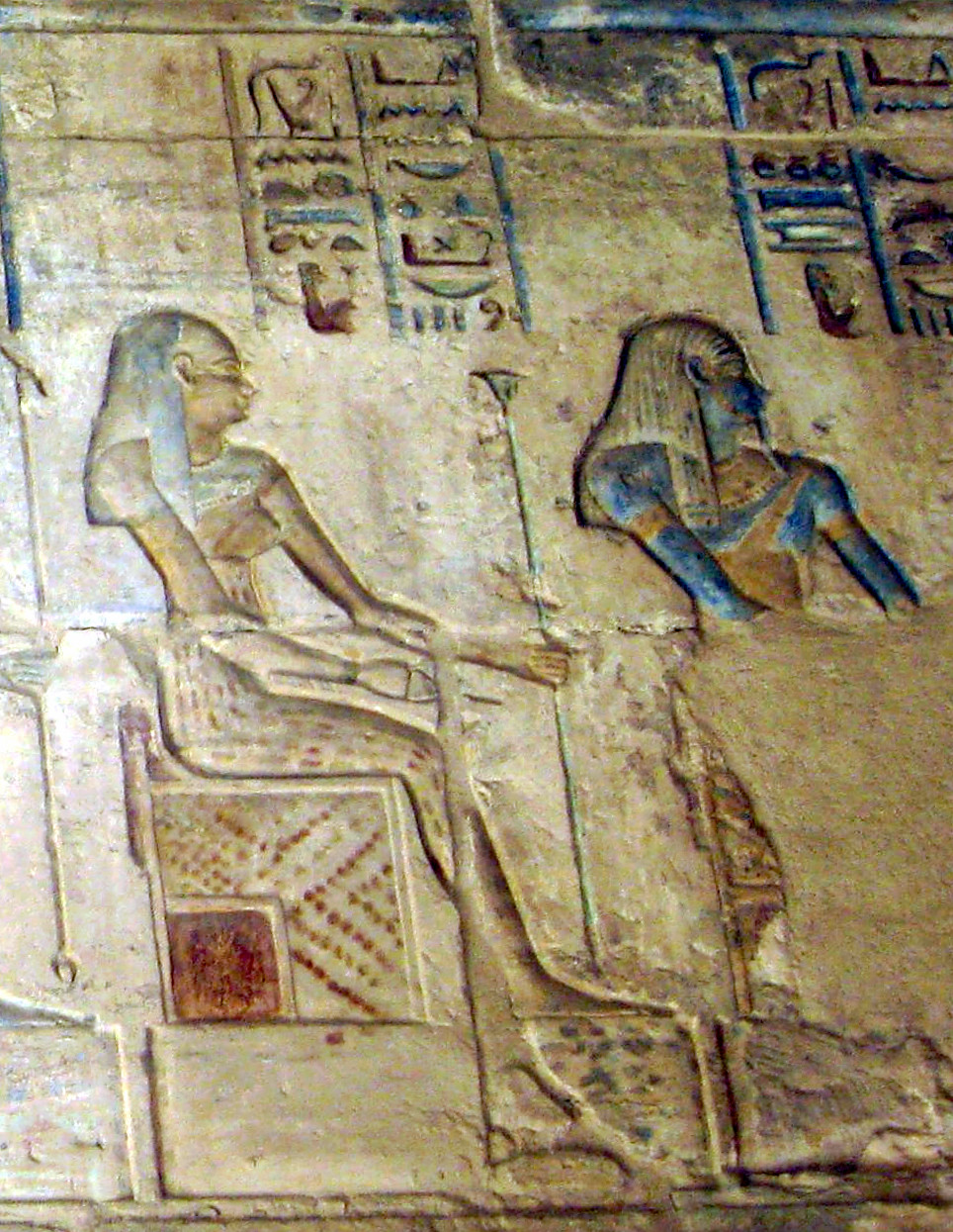 Nun and Naunet, The Place of Truth, Deir el Medina.